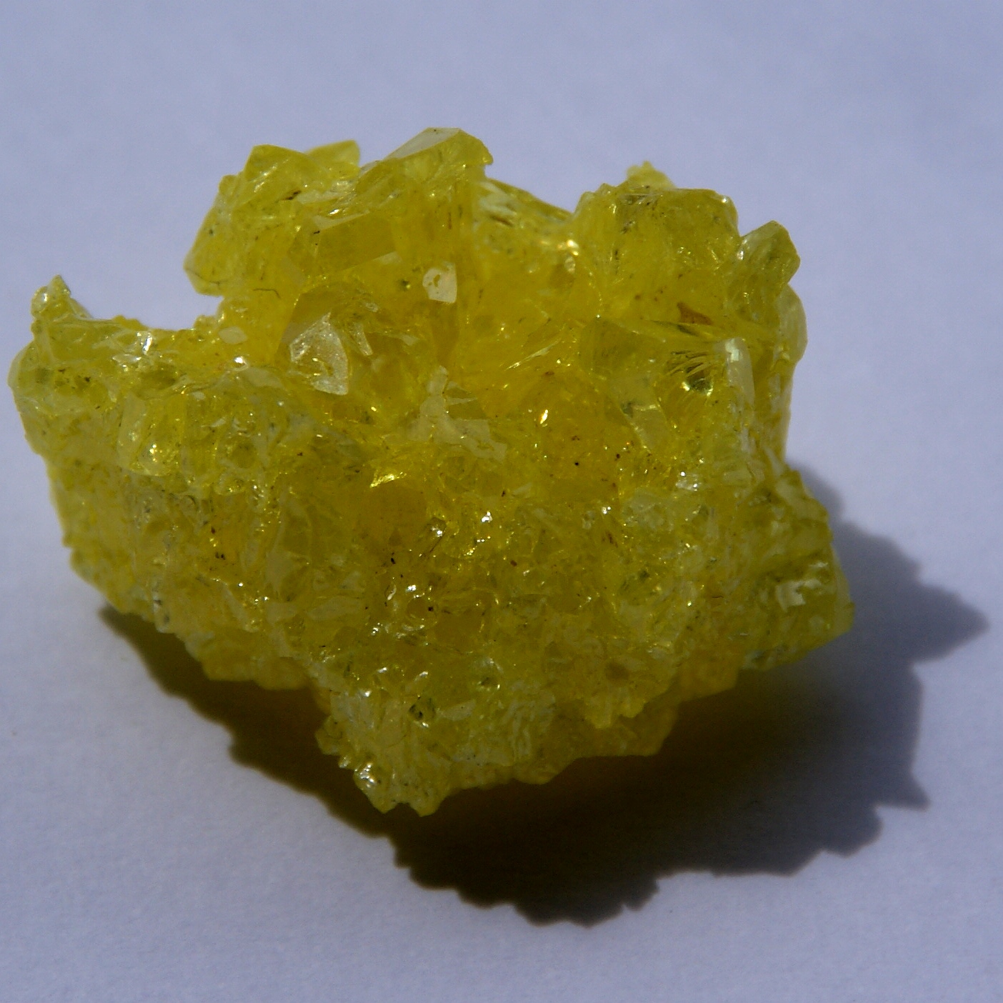 Natural crystalline sulfur.